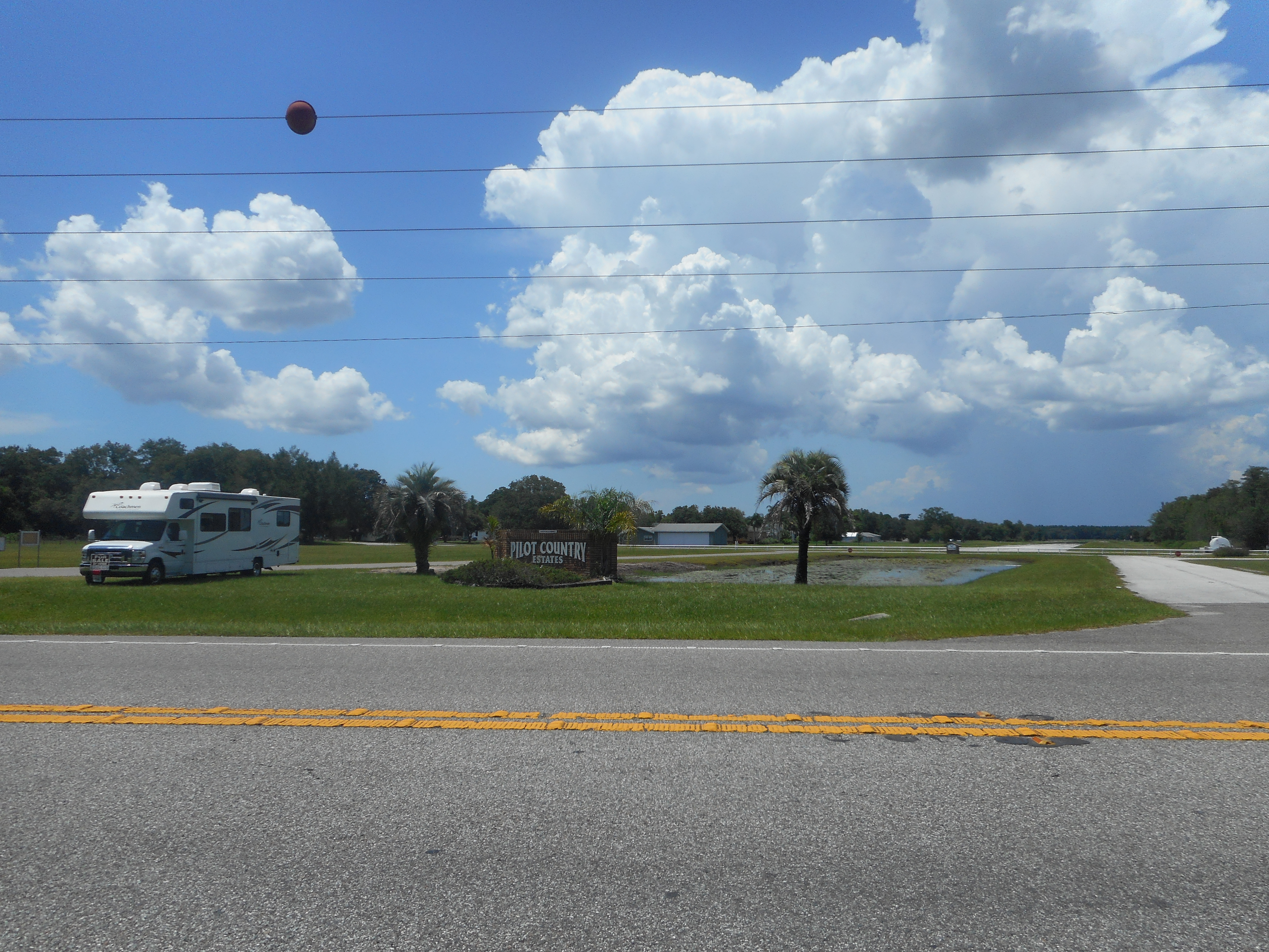 The front entrance to Pilot County Estates Airport along Florida State Road 52 just east of US 41 in Gower's Corner, Florida. Pilot Country Estates is a community centered around a paved airstrip where residents own their own private planes. They're as likely to have Cessnas as they are to have Corvettes. At least one resident is trying to sell his 2008-2015 Ford E-Series Mini-Motor Home.